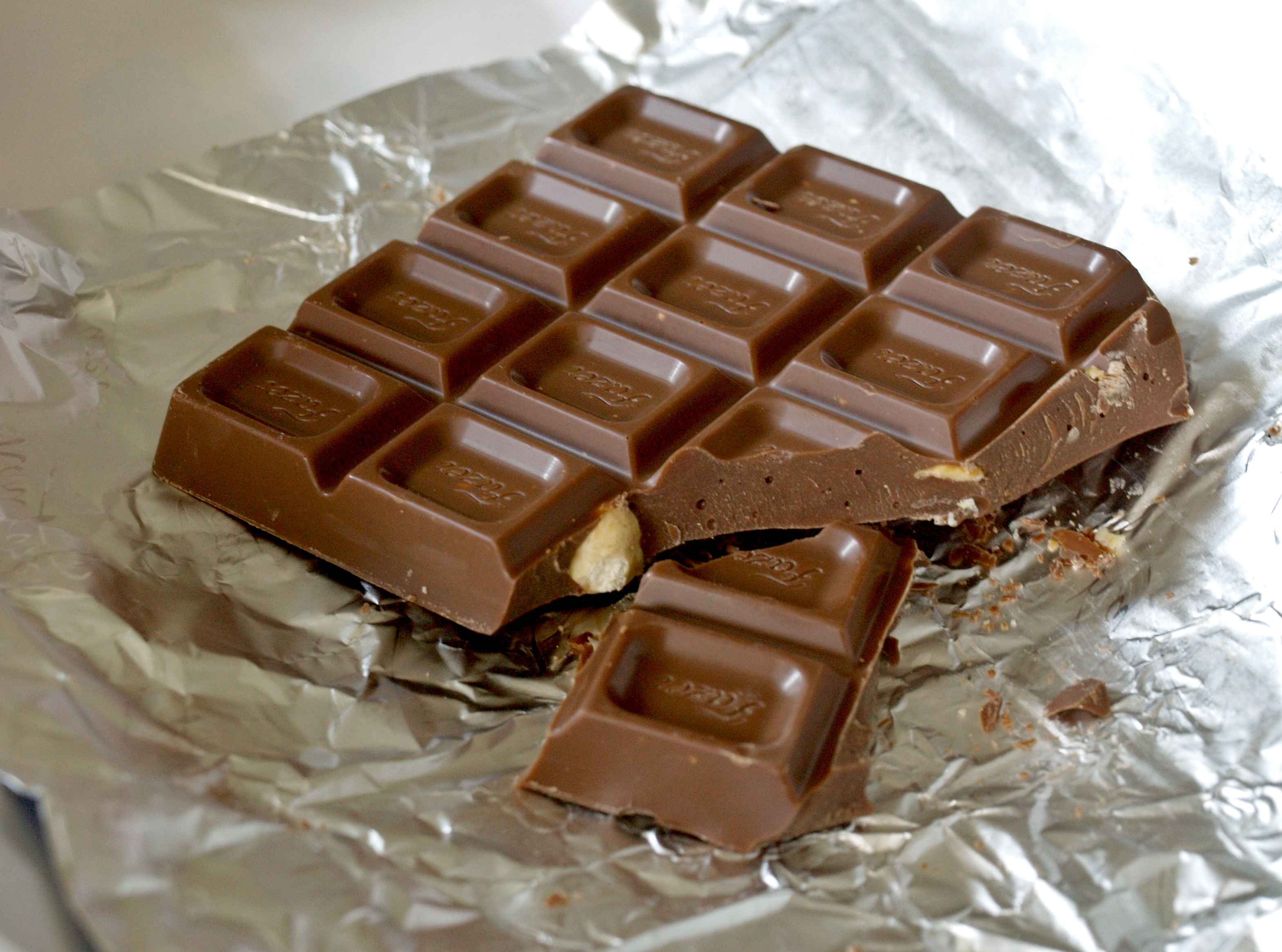 Fazer Whole Hazelnuts in Milk Chocolate.